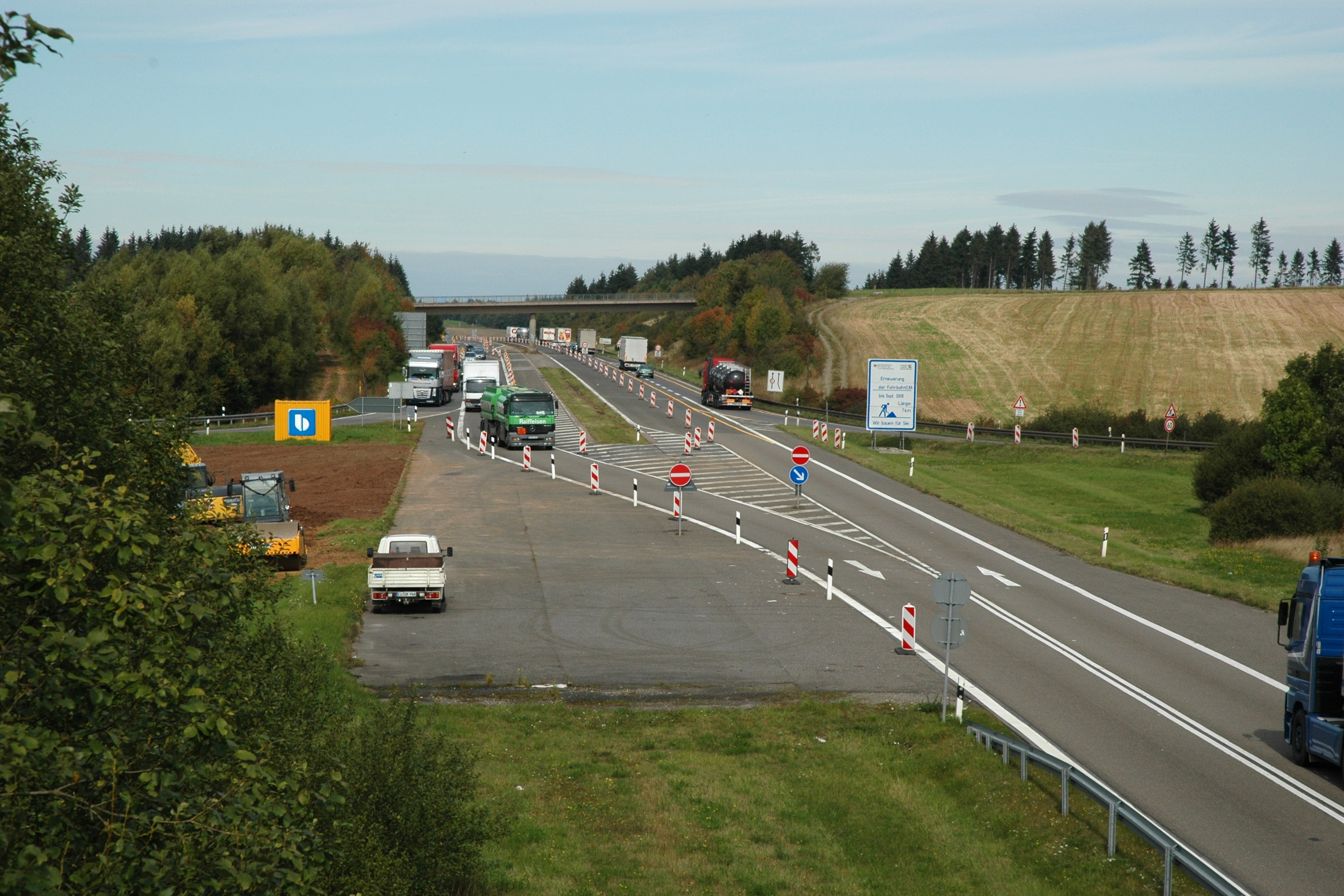 Bundesautobahn 1, Exit 114 - Blankenheim, Sept. 2007